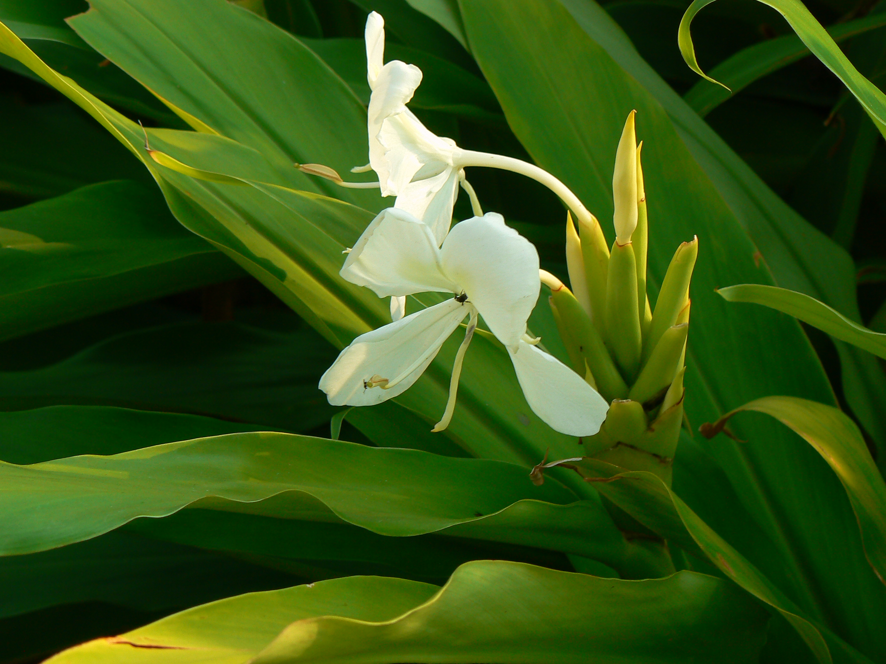 Common name: Butterfly Ginger Lily, White Ginger Lily, Dolan champa दोलन चम्पा (Hindi), Takhellei angouba (Manipuri), Sontaka or Sontakka सोनटका or सोनटक्का (Marathi), Suruli Sugandhi (Kannada) Botanical name: Hedychium coronarium - [ (hed-EE-kee-um) or (hee-DICK-ee-um) sweet (sugar) snow; (kor-oh-NAR-ee-um) crown, wreath or garland ] Family: Zingiberaceae (ginger family) - [ (zing-ee-ber-ah-see-ay) From a Sanskrit word zingi-ee-ber meaning shaped like a horn; the ginger family ] Origin: India, Indonesia Butterfly ginger lily is native to India. It is a robust, attractive plant that will reach 6 feet in containers. Leaves are lance-shaped and sharp-pointed, 8-24 in long and 2-5 in wide and arranged in 2 neat ranks that run the length of the stem. From midsummer through autumn the stalks are topped with 6-12 in long clusters of wonderfully fragrant white flowers that look like butterflies. The flowers eventually give way to showy seed pods chock full of bright red seeds. Butterfly ginger lily (takhellei) is used in Manipur to prepare what is known as nachom with Acacia farnesiana (chingonglei). Two or three flowers of the chingonglei is inserted inside the lily and the combination of the two flowers is regarded as divine. This ornamental flower combination is usually worn behind the ear by womenfolk. The plants are very robust and quickly grow out of the containers. They need to be divided yearly. Remove old stems after flowers have faded to promote new growth. Courtesy: - Flowers of India - Top Tropicals - Dave's Garden Note: Identification attempted; may not be accurate.